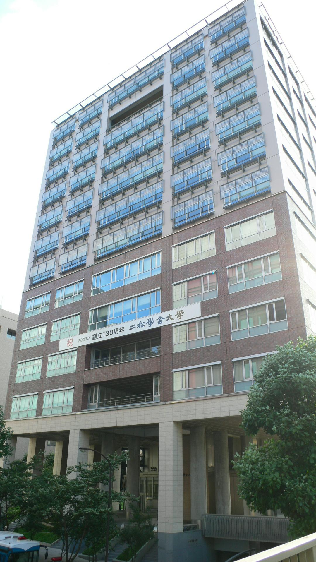 Nishogakusha_University,Kudanshita_campus -July.30.2006